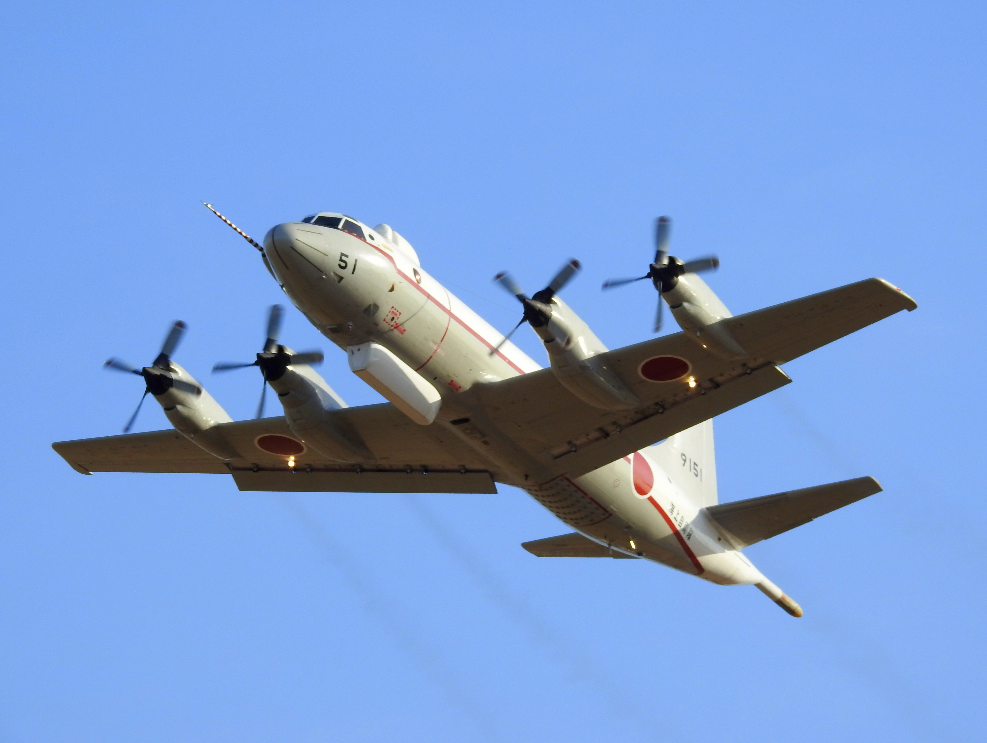 Lockheed UP-3C Orion #9151 of Air Development Squadron 51 of the Japan Maritime Self-Defence Force based at Naval Air Facility Atsugi in Kanagawa Prefecture, Japan